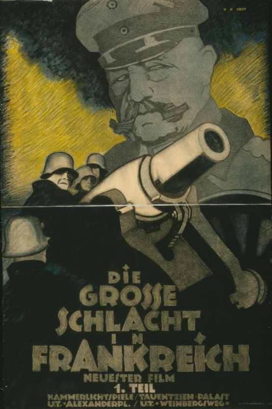 World War I movie poster "Die grosse Schlacht in Frankreich" ("The Great Battle in France"), with German General Field Marshall Paul von Hindenburg (1847-1934) looming in the background [Declared to be "Newest Movie, Part 1"].